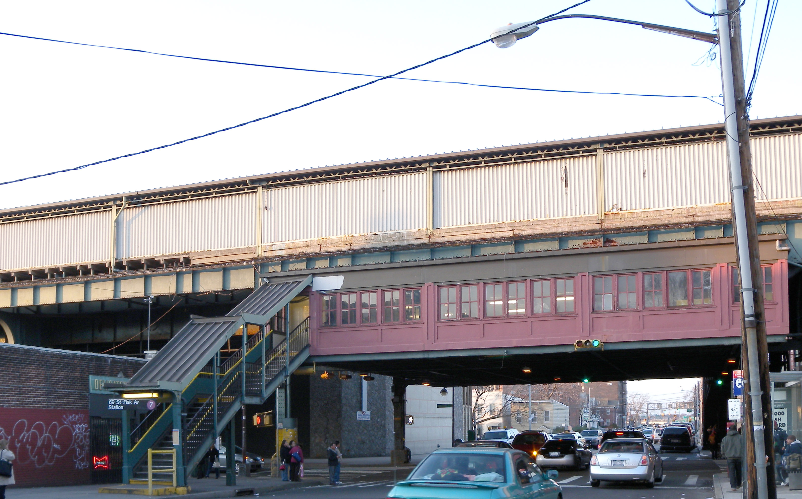 Looking northwest along 69th Street at IRT 7 line station late on a sunny afternoon.